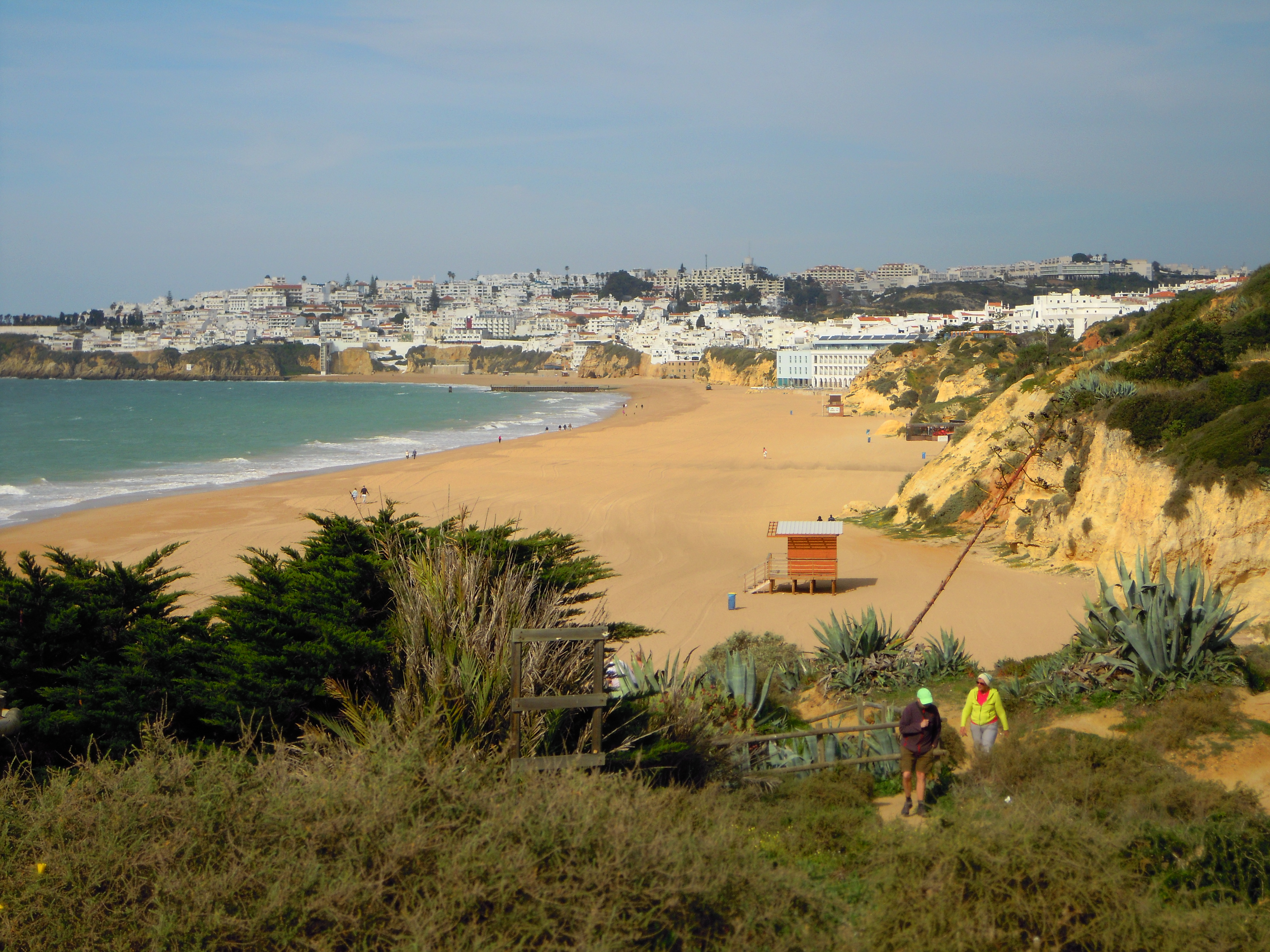 View of the Praia dos Alemães (German Beach) in the Areias de São João of Albufeira. Looking west towards the old town from the cliff tops at the rear of HOTEL Auramar. Albufeira, Algarve, Portugal